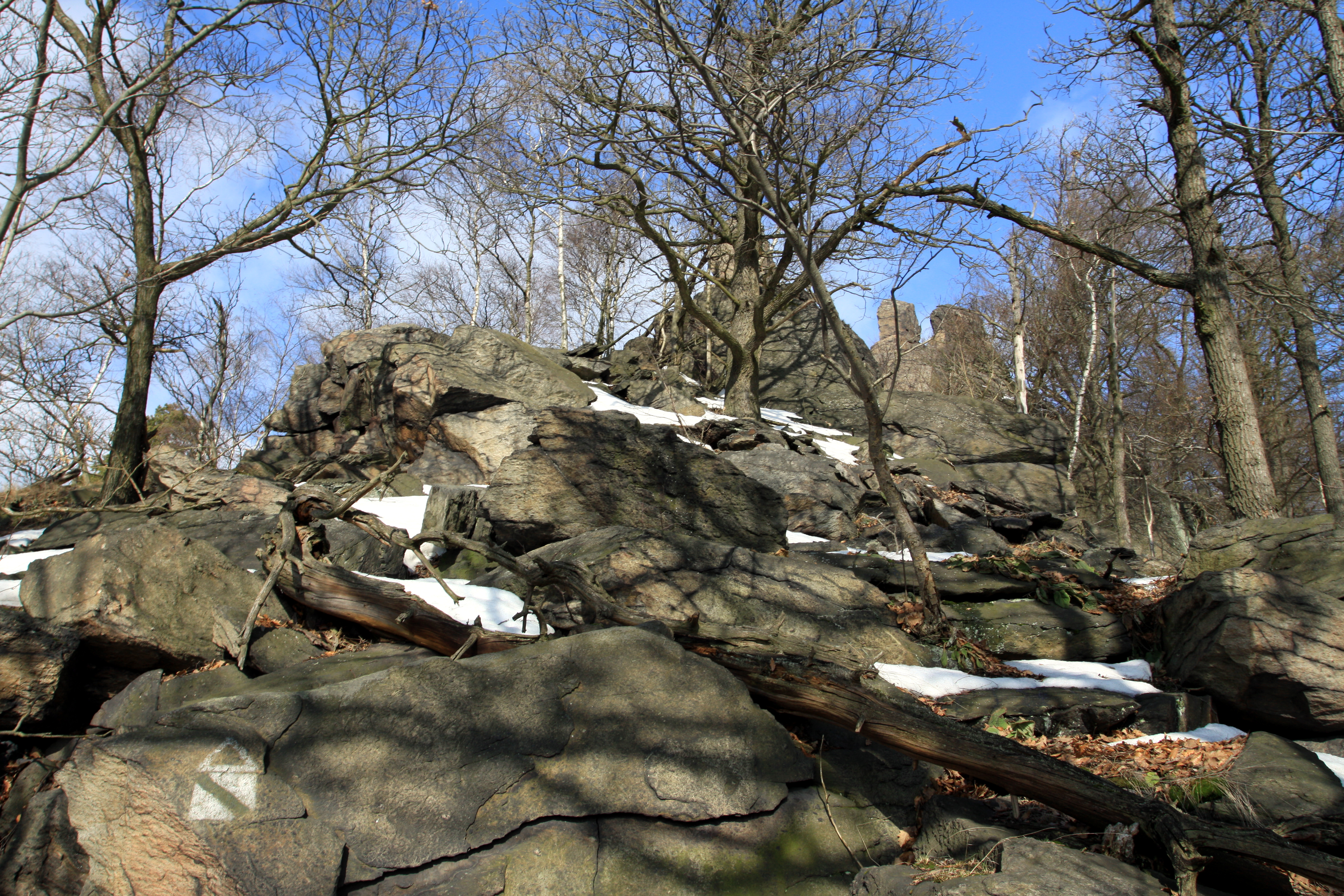 National nature reserve Jezerka near Horní Jiřetín in Most District, Czech Republic